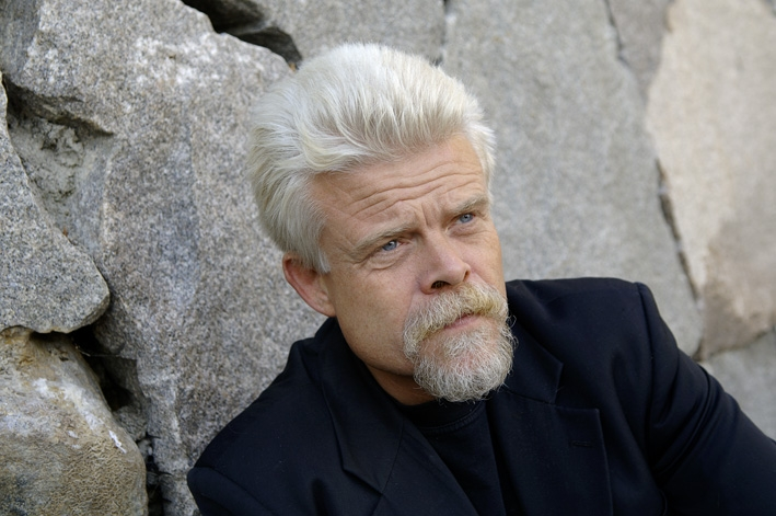 Photo of Mattias Gardell